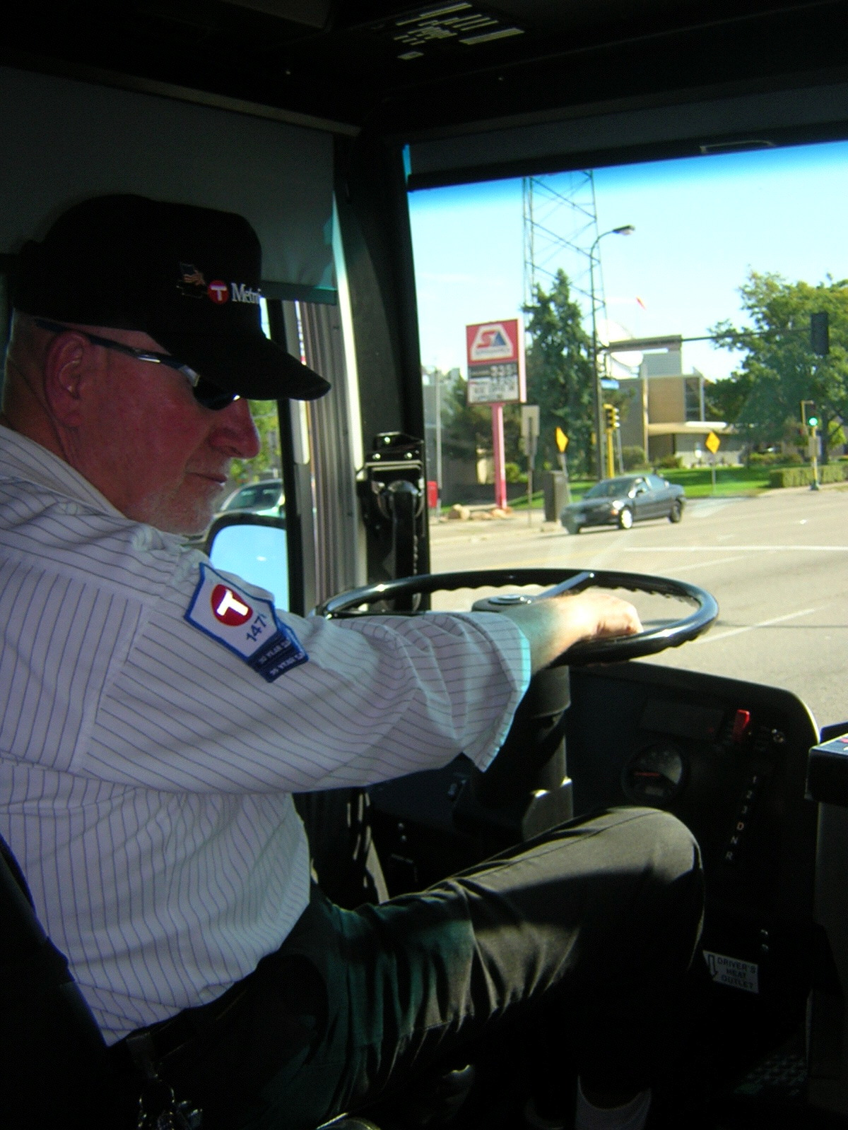 Bus driver on University Avenue near the border between Minneapolis, Minnesota and Saint Paul, Minnesota, USA (map)